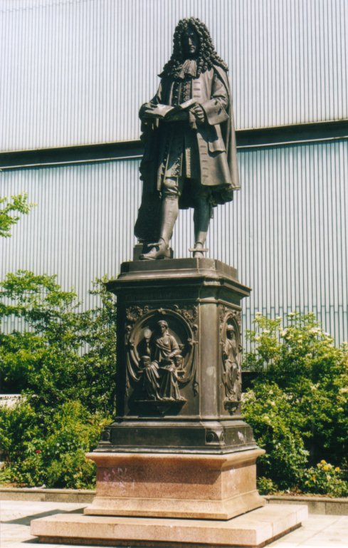 Sculpture of Gottfried Wilhelm Leibniz in Leipzig